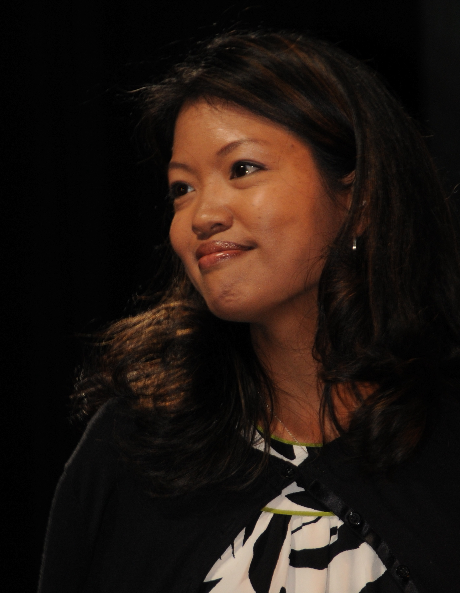 American writer and blogger Michelle Malkin.